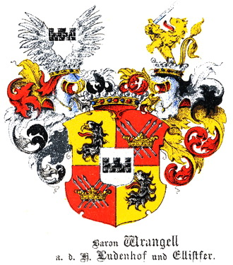 Wrangell (a. d. H. Ludenhof und Ellistfer) arms